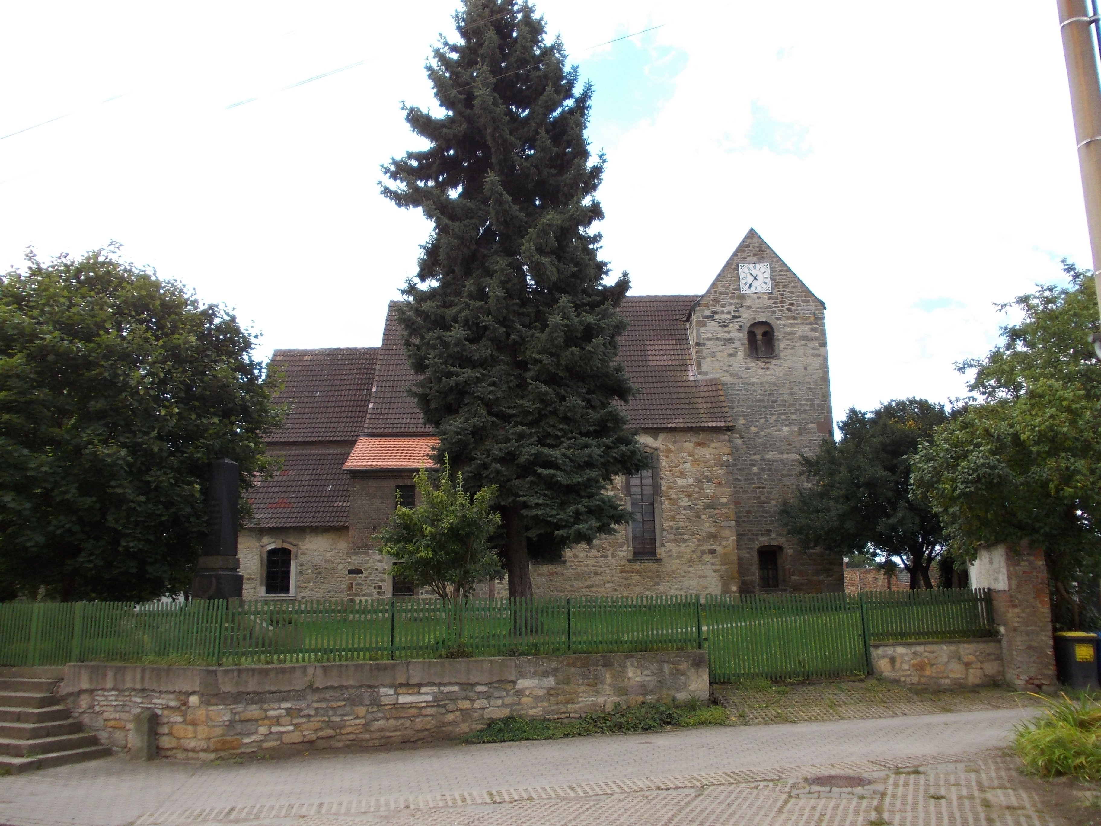 St. John's Church in Oberwünsch (Mücheln/Geiseltal, district of Saalekreis, Saxony-Anhalt)